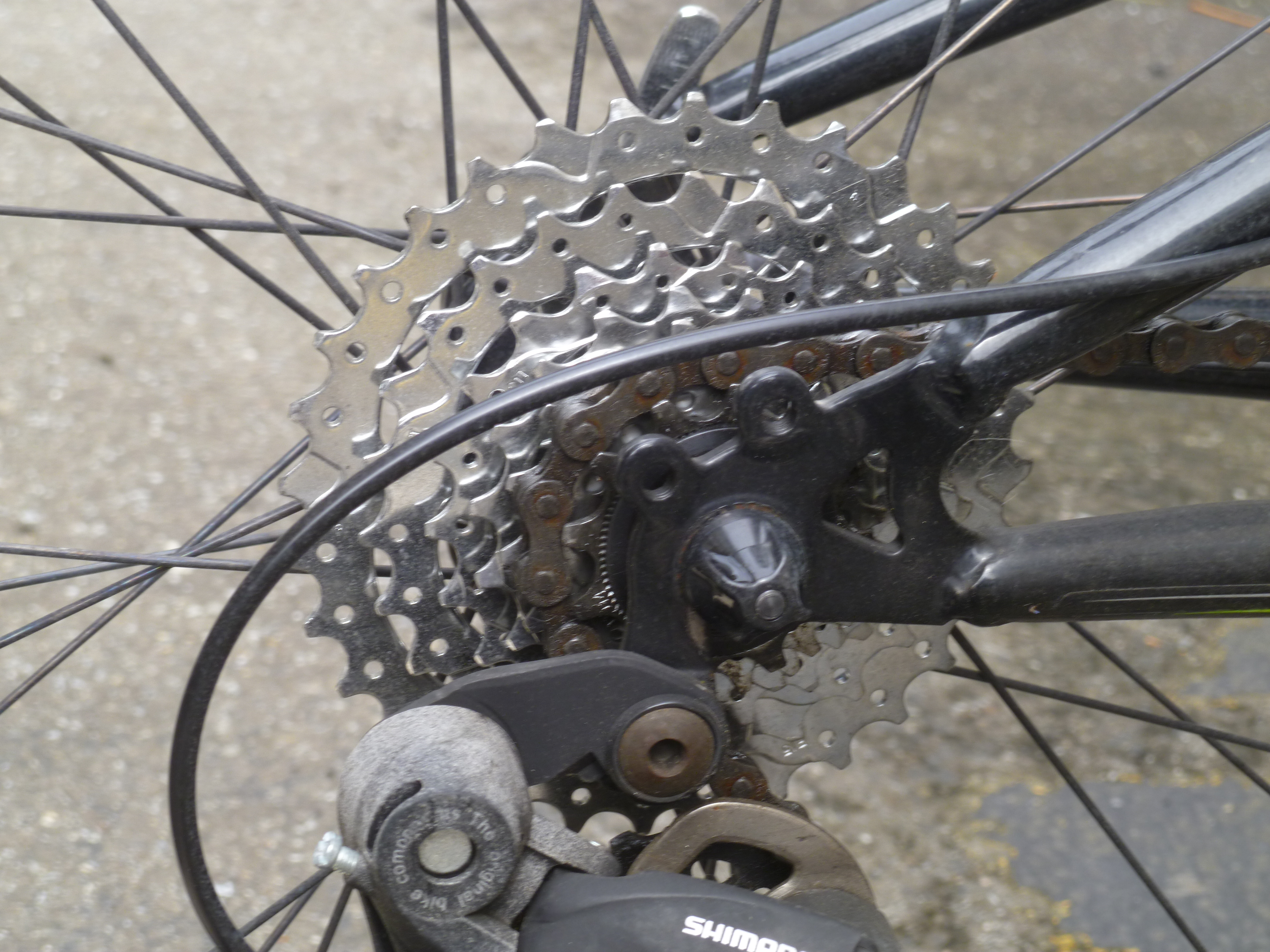 Lifebelt for cyclists (cycling jargon - sport)